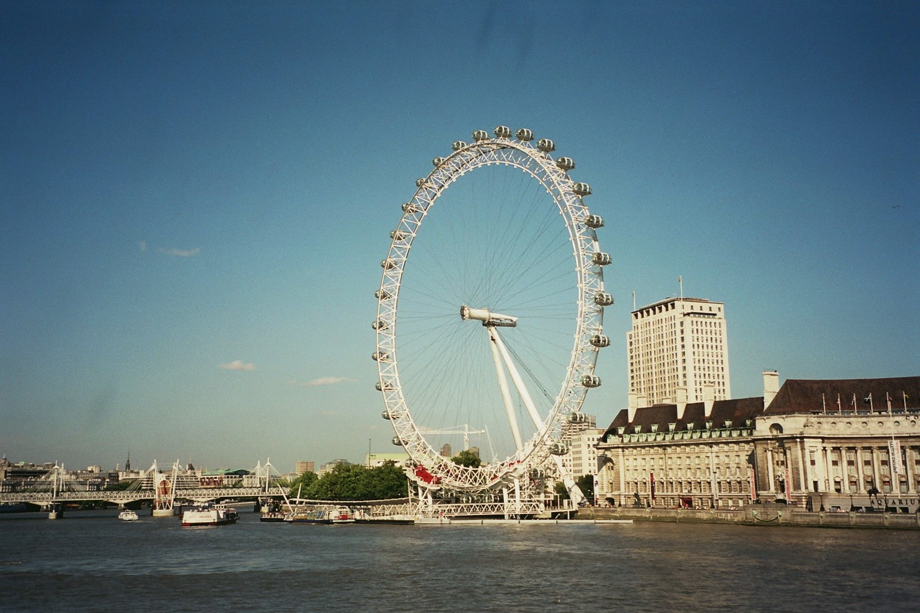 The London Eye from Westminster